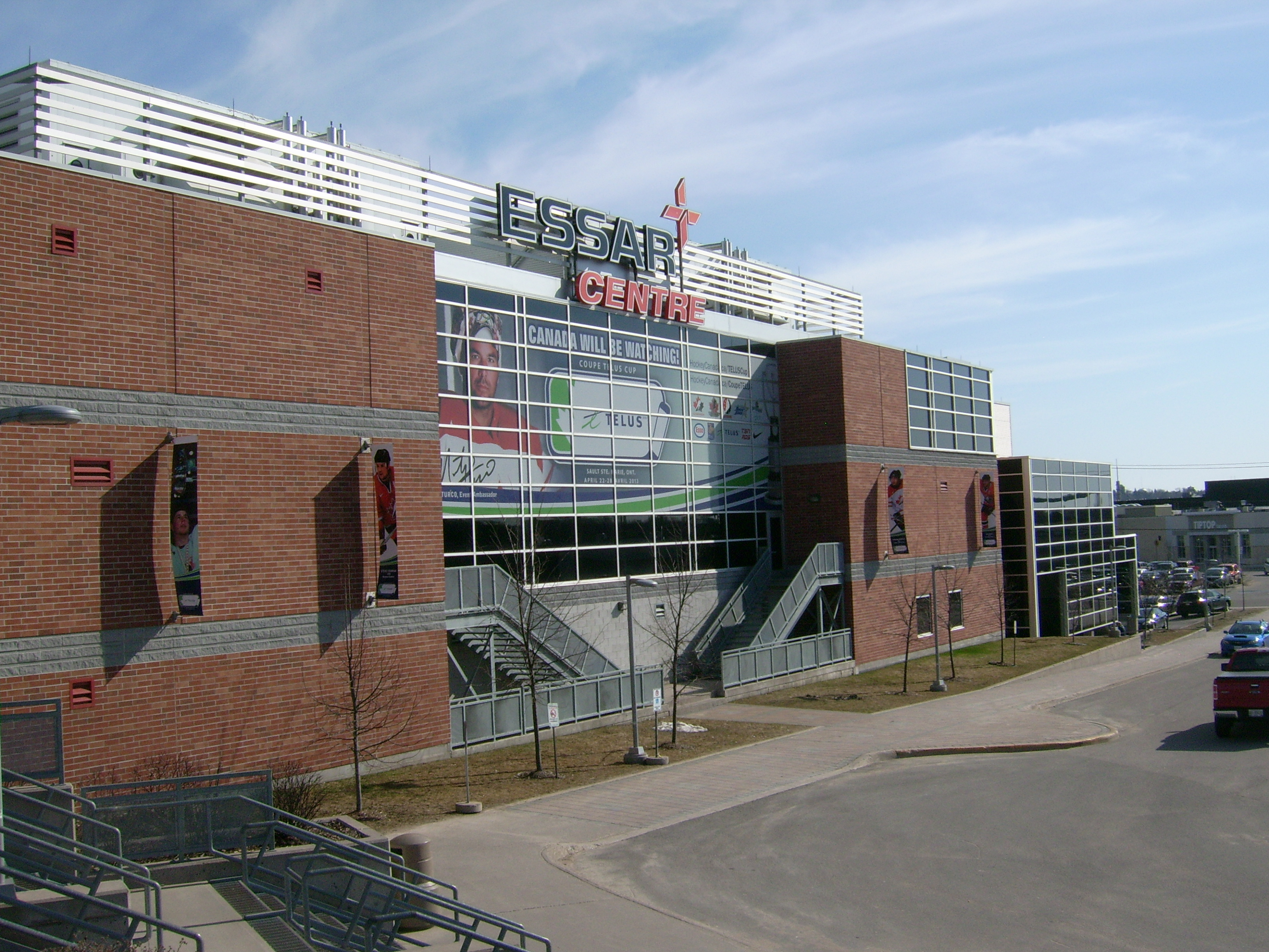 Essar Centre during the 2013 Telus Cup, Sault Ste. Marie, Ontario.